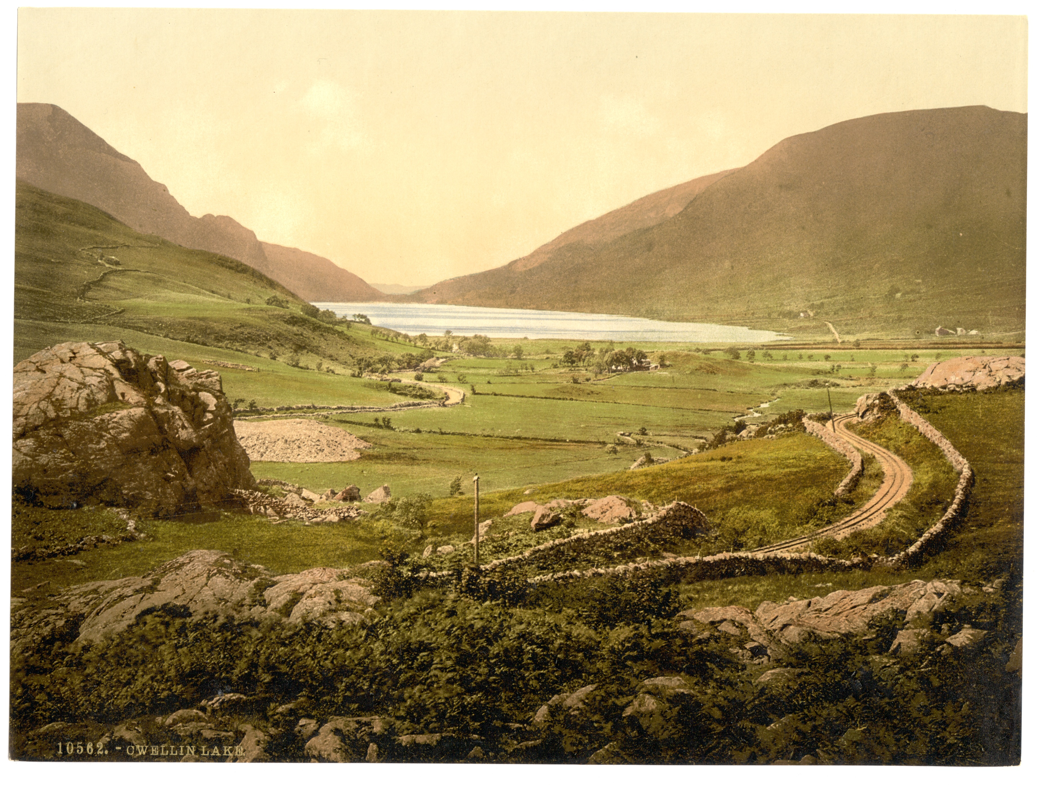 Title from the Detroit Publishing Co., catalogue J-foreign section. Detroit, Mich. : Detroit Photographic Company, 1905.; More information about the Photochrom Print Collection is available at Forms part of: Views of landscape and architecture in Wales in the Photochrom print collection.; Print no. "10562".